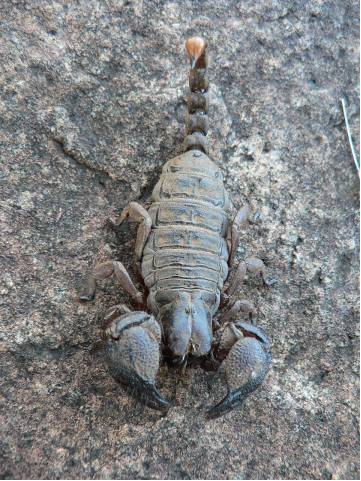 Opistophthalmus pugnax female near Brandfort, Free State, South Africa